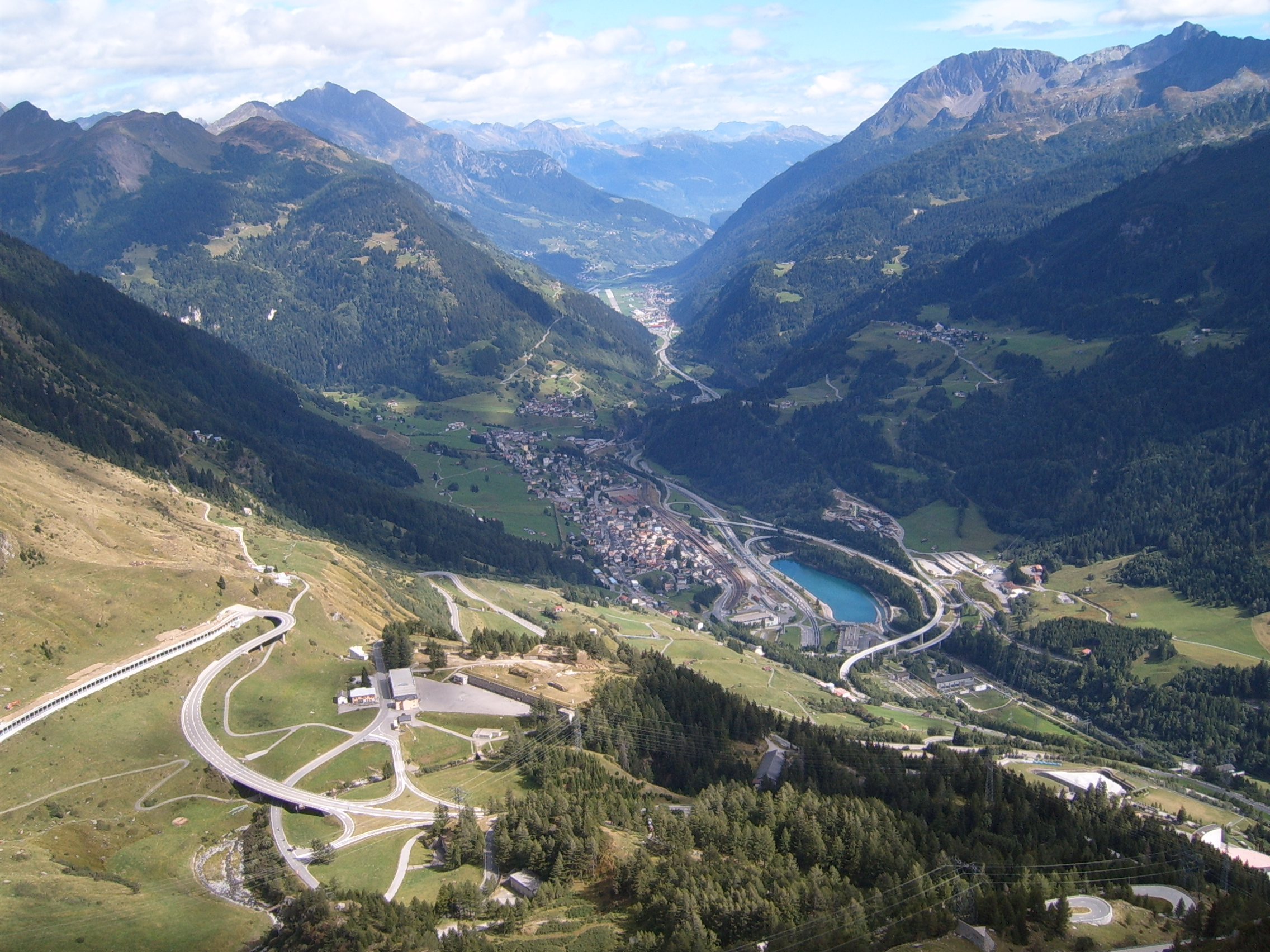 Airolo, seen from St. Gotthard Pass road (Canton of Ticino, Switzerland)